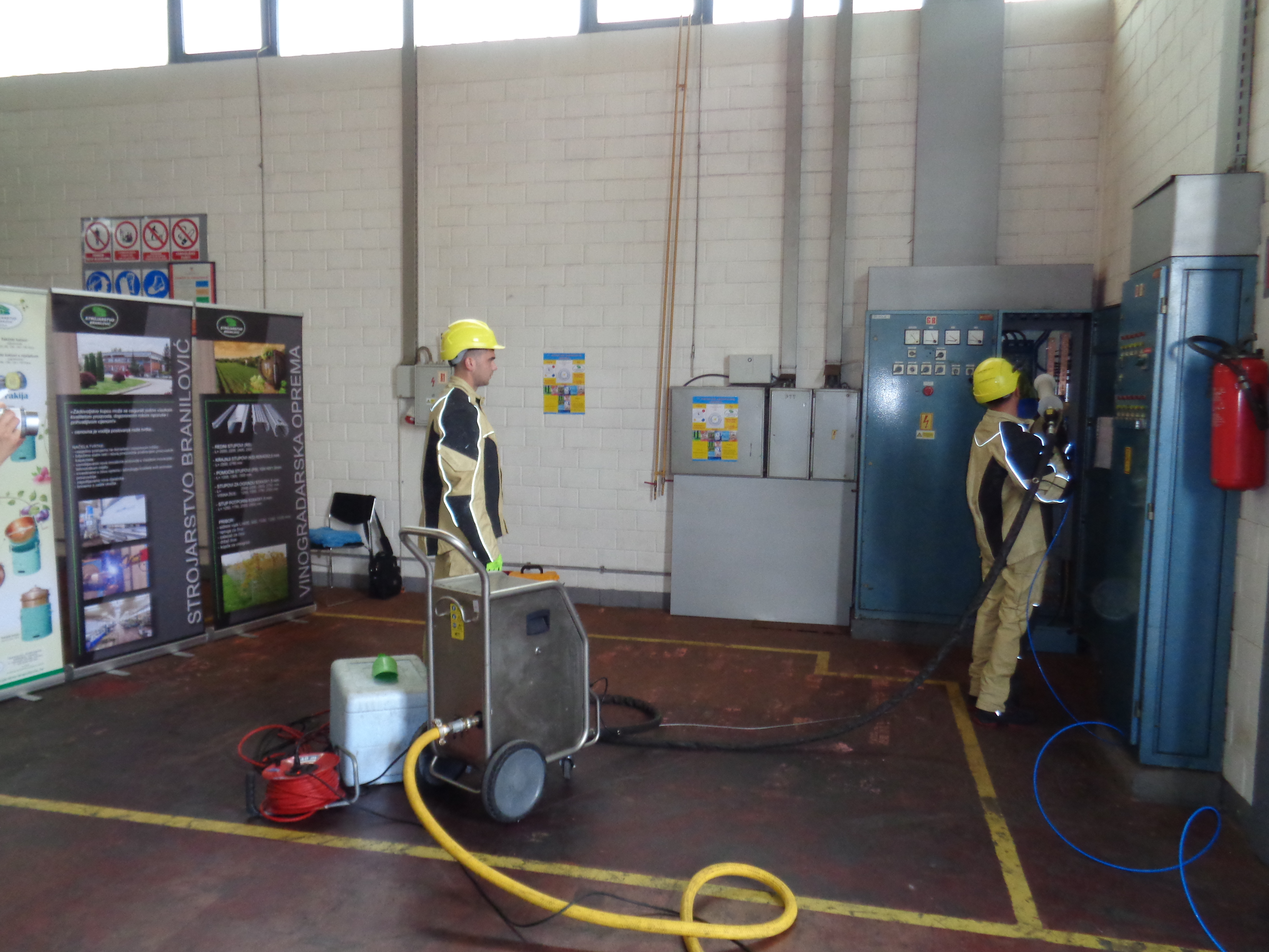 Dry ice blasting used for cleaning the electrical instalations in industry (Čakovec, Croatia)